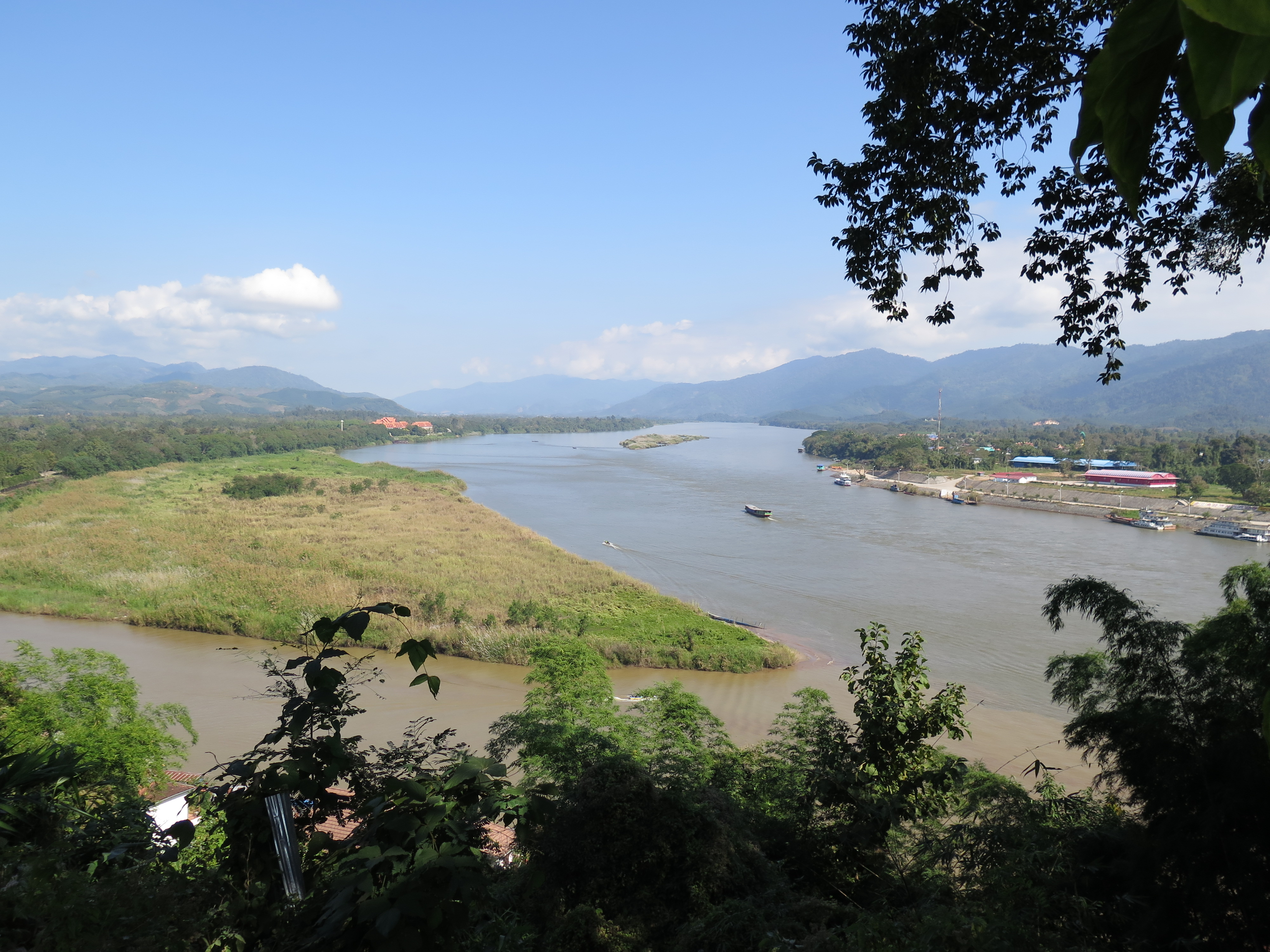 A view of the Golden Triangle, taken from the temple on the hill in Sop Ruak. Sop Ruak, Chiang Rai, Thailand.